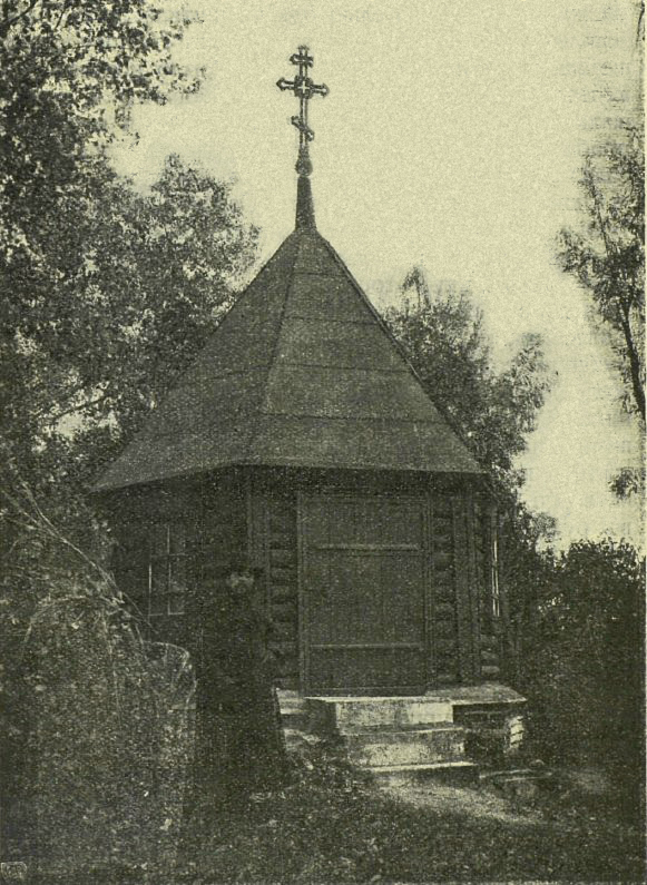 Chapel in Vladychny Monastery